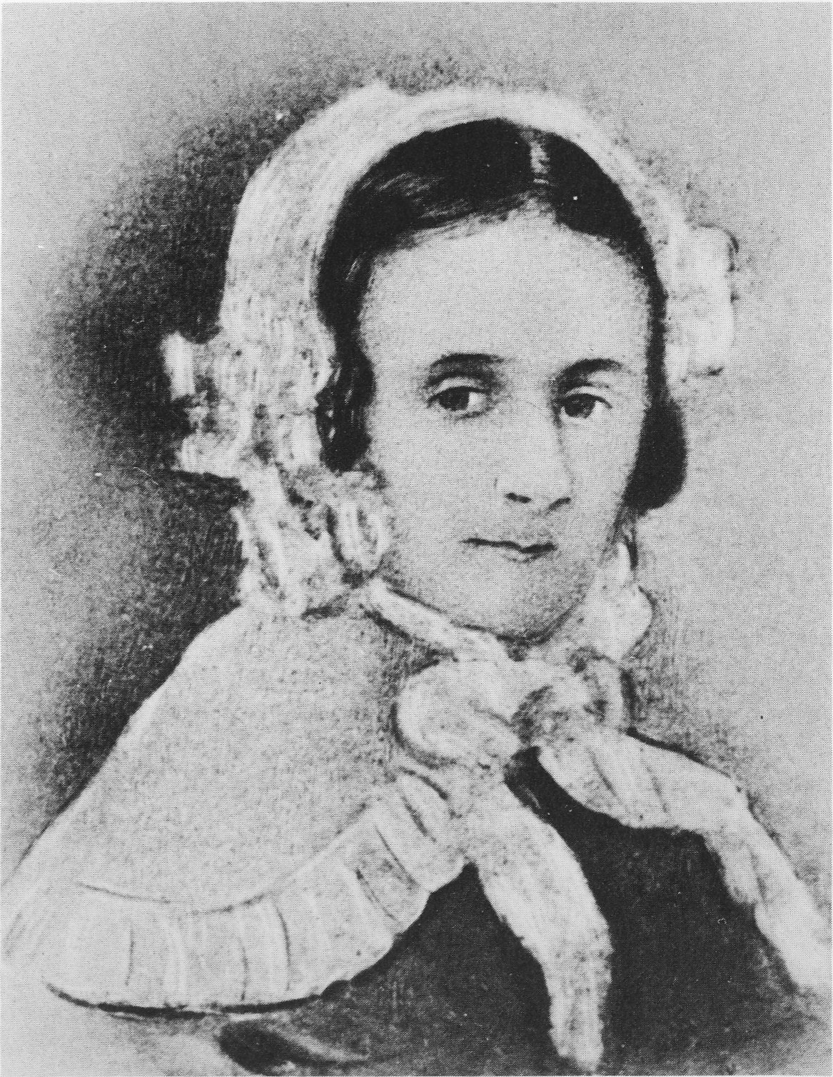 Elizabeth Underwood, a significant land owner in Ashfield, New South Wales, Australia.